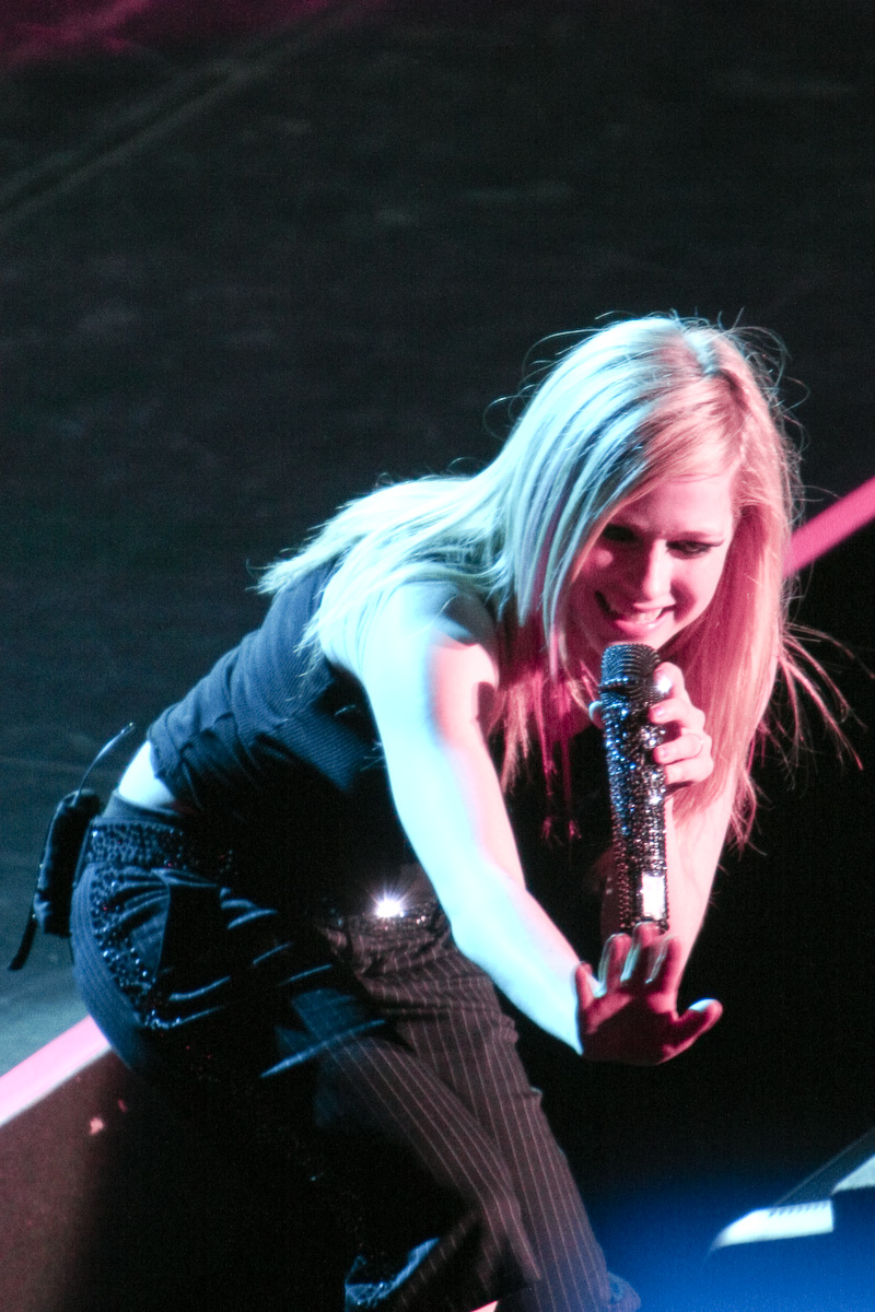 Avril Lavigne "The Best Damn Tour", Beijing Wukesong Arena, October 2008